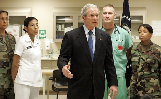 President George W. Bush speaks with the press on Sunday, January 1, 2006, at Brooke Army Medical Center in San Antonio, TX. During his visit to the Medical Center, the President presented nine soldiers with a Purple Heart Award and visited with wounded soldiers and their families. White House photo by Shealah Craighead